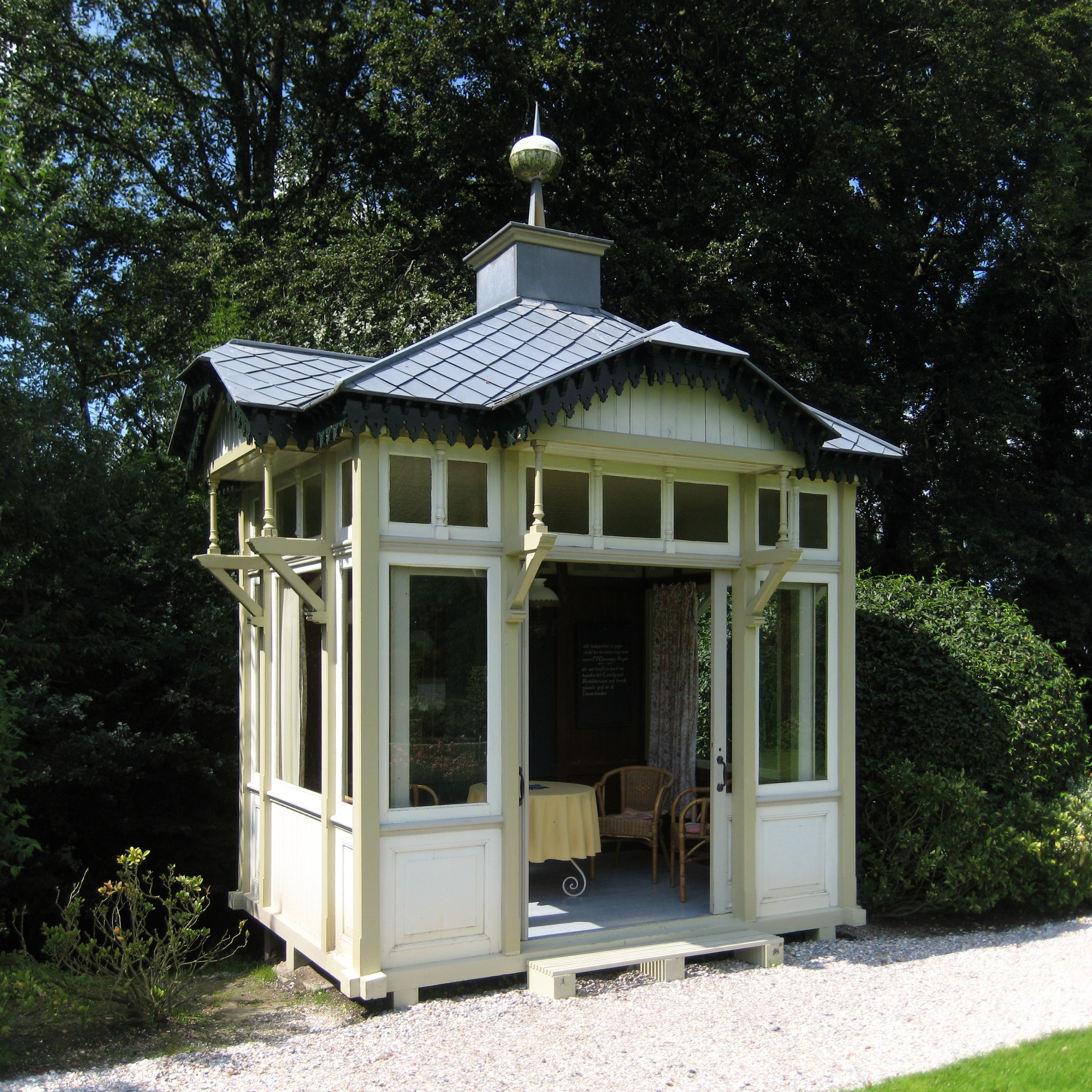 Tuinprieel (1888) (originally a tram shelter and later a theekoepel) in the garden of Verhildersum in Leens, a village in the Dutch province of Groningen.